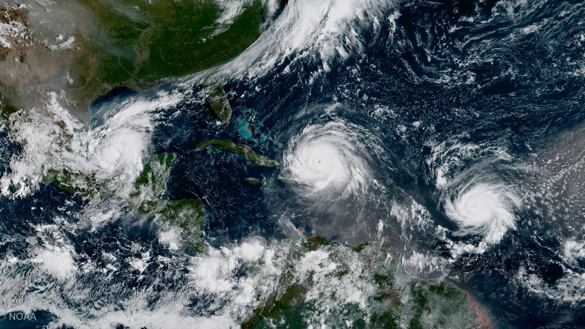 This geocolor image from GOES-16 shows Hurricane Katia (l) Hurricane Irma (m) and Hurricane Jose (r) in the Atlantic Ocean on September 7, 2017.According to NOAA’s National Hurricane Center, Katia, a category 1 storm, is located about 215 miles east of Tampico, Mexico, and, at present, is somewhat stationary. Katia has maximum sustained winds near 80 mph with higher gusts. Forecasters say some strengthening is forecast during the next 36 hours and Katia could be near major hurricane strength at landfall. Irma, a category 5 storm, has maximum sustained winds of 180 miles per hour and is heading for the Turks and Caicos Islands. The storm is forecast to remain a powerful category 4 or 5 hurricane during the next couple of days. Jose, a category 1 storm, has maximum sustained winds of 90 miles per hour and is located about 815 miles east of the Lesser Antilles. Forecasters say Jose may strengthen during the next 48 hours.